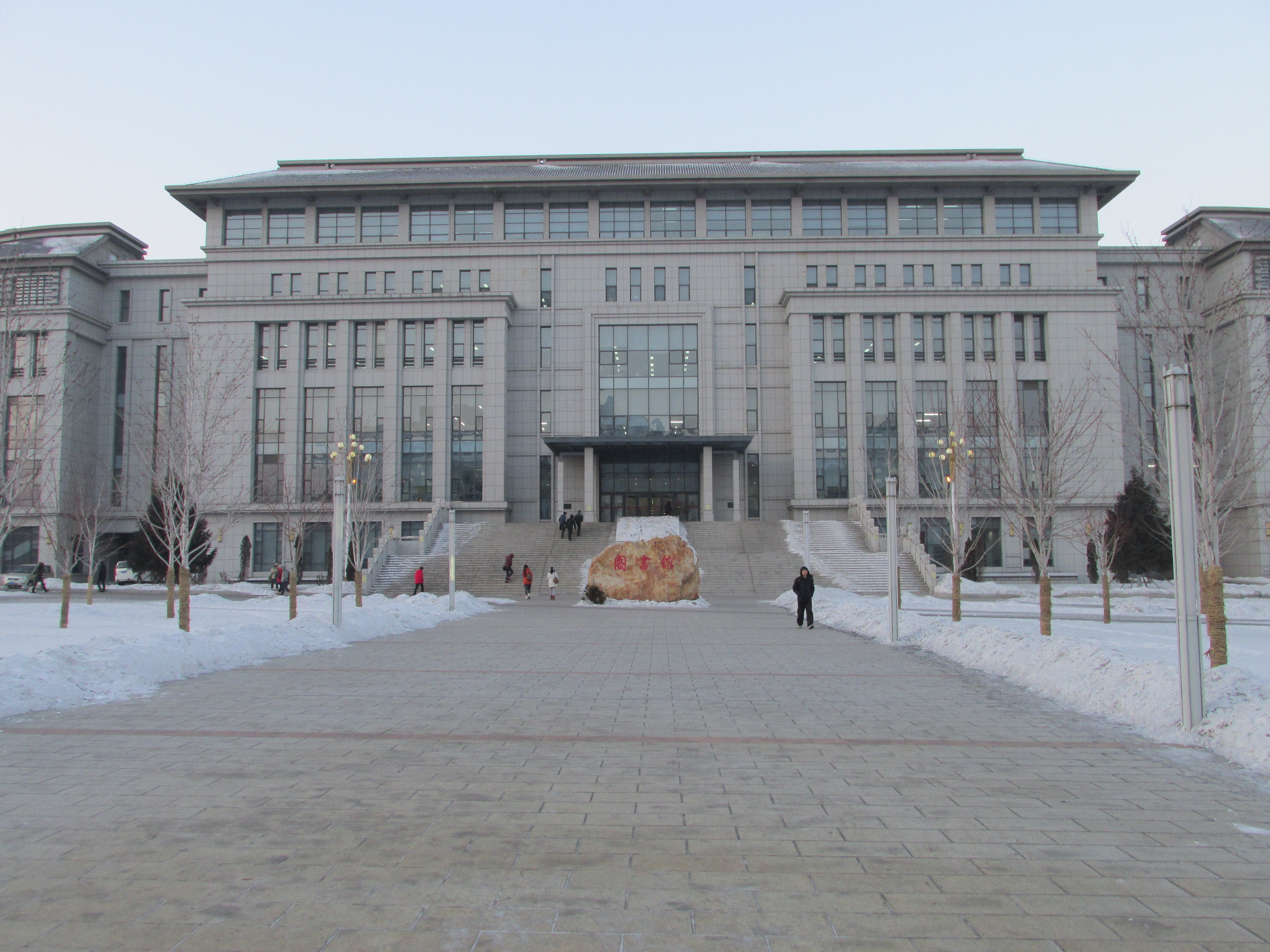 Library Building of the Harbin Engineering University during Winter